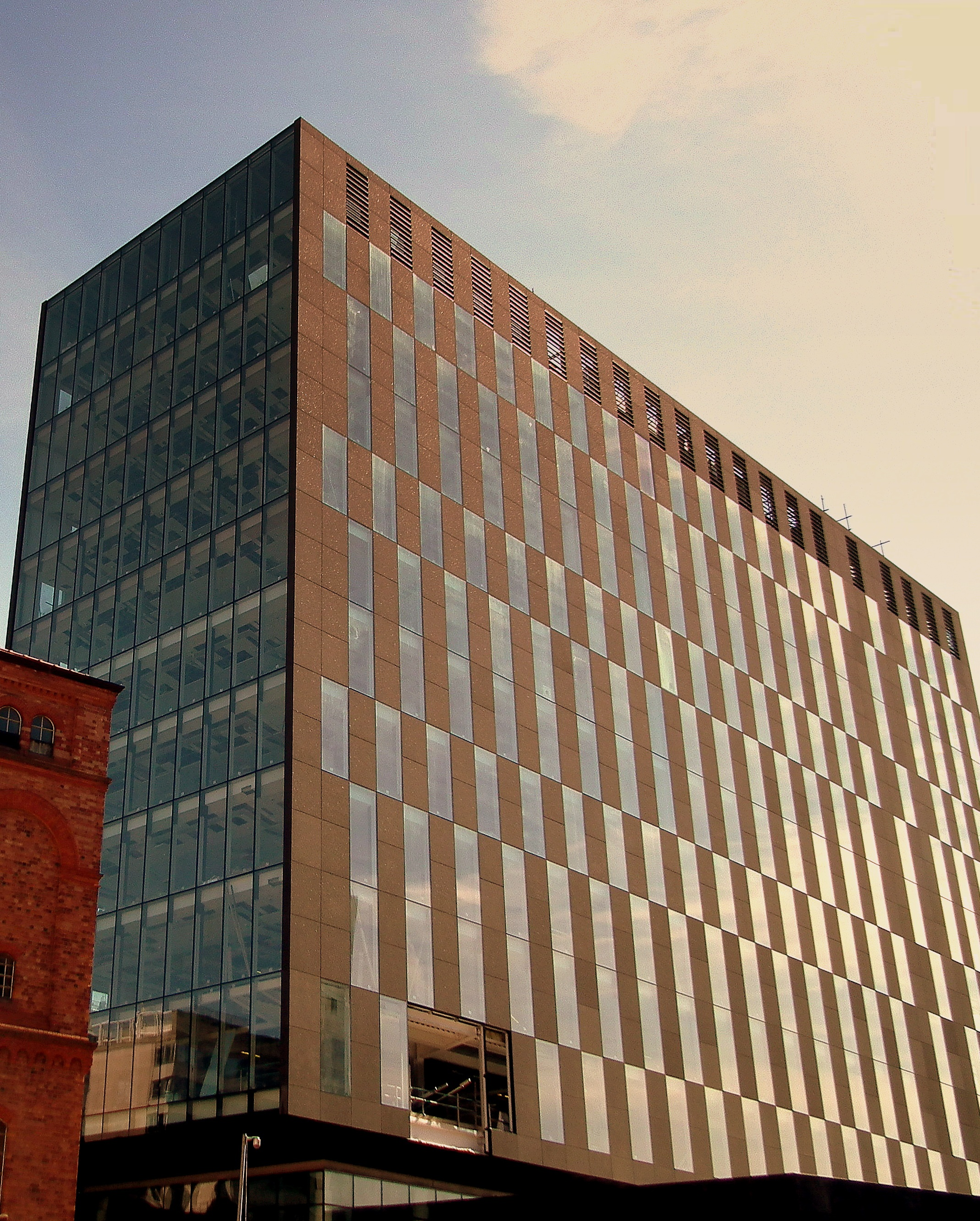 The tallest of the three Mann Island Building close to Pier Head in Liverpool, England.